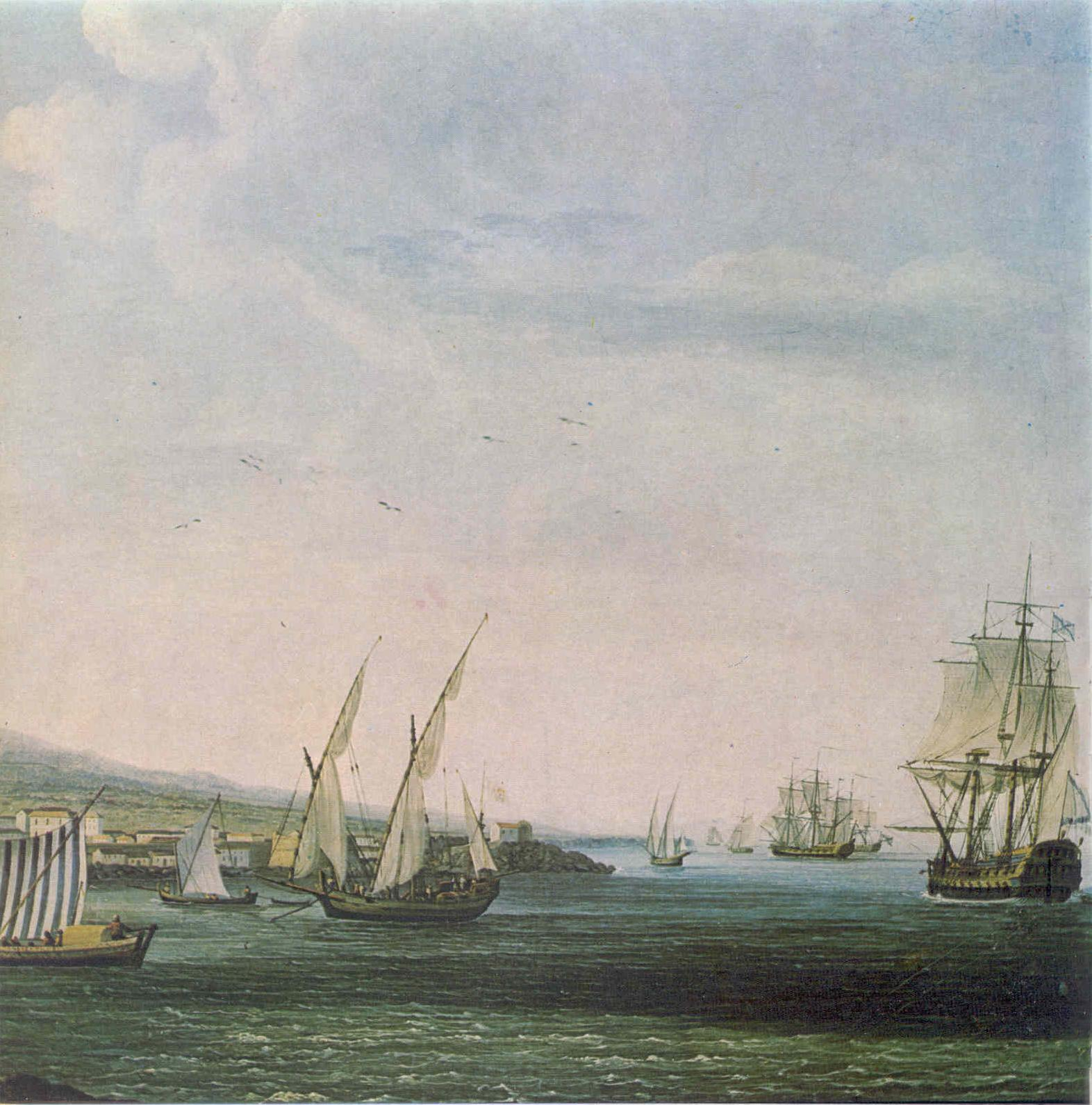 This is a fragment of Jacob Philipp Hackert's picture «Russian navy near Catania coast». This picture is in Central Naval Museum in Saint-Petersburg. The picture illustrate way of Russian navy in 1769 from Baltic sea to Greece in Russian-Turkish war 1769-1774.